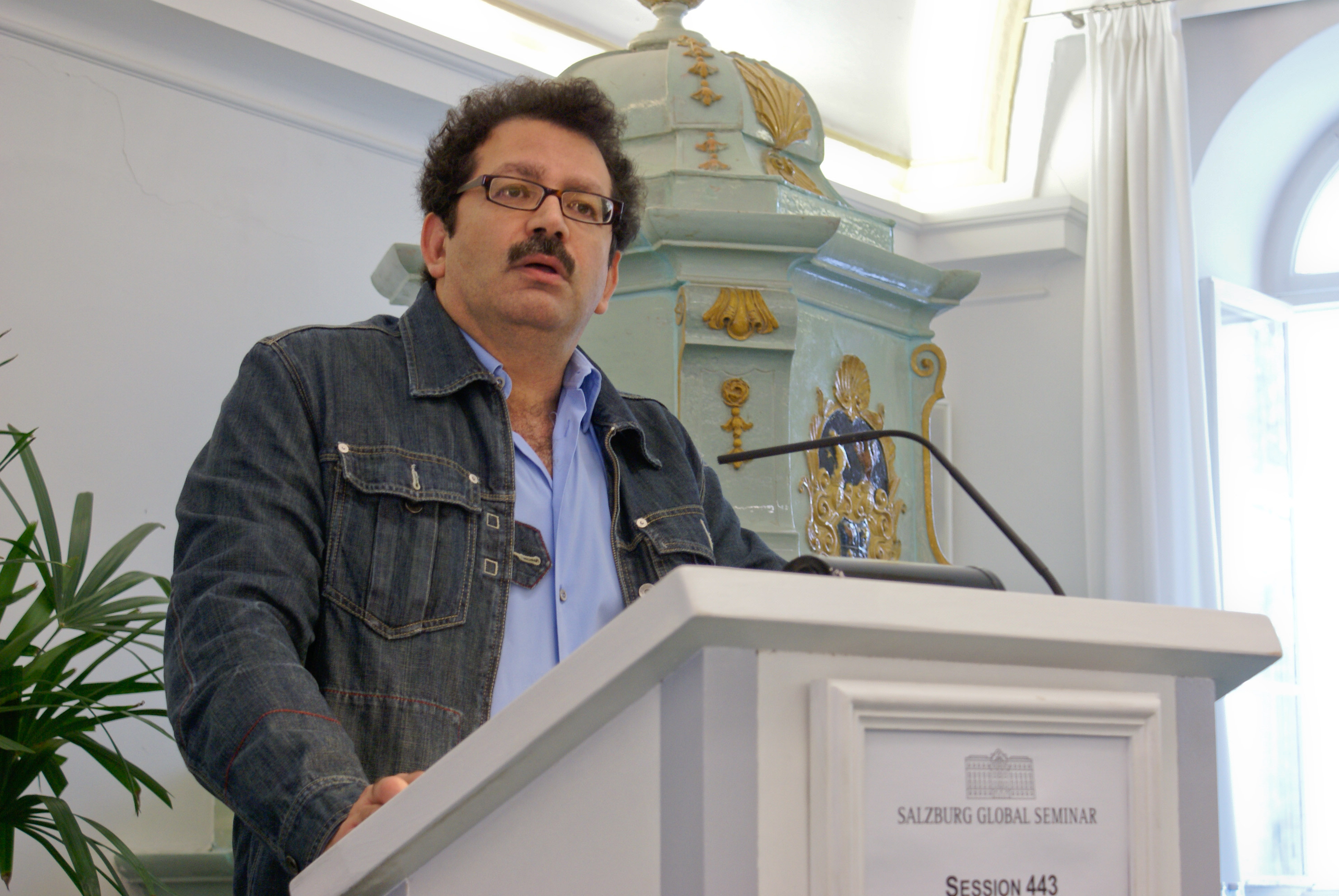 Lebanese human rights lawyer Chibli Mallat during a speech at the Salzburg Seminar #443